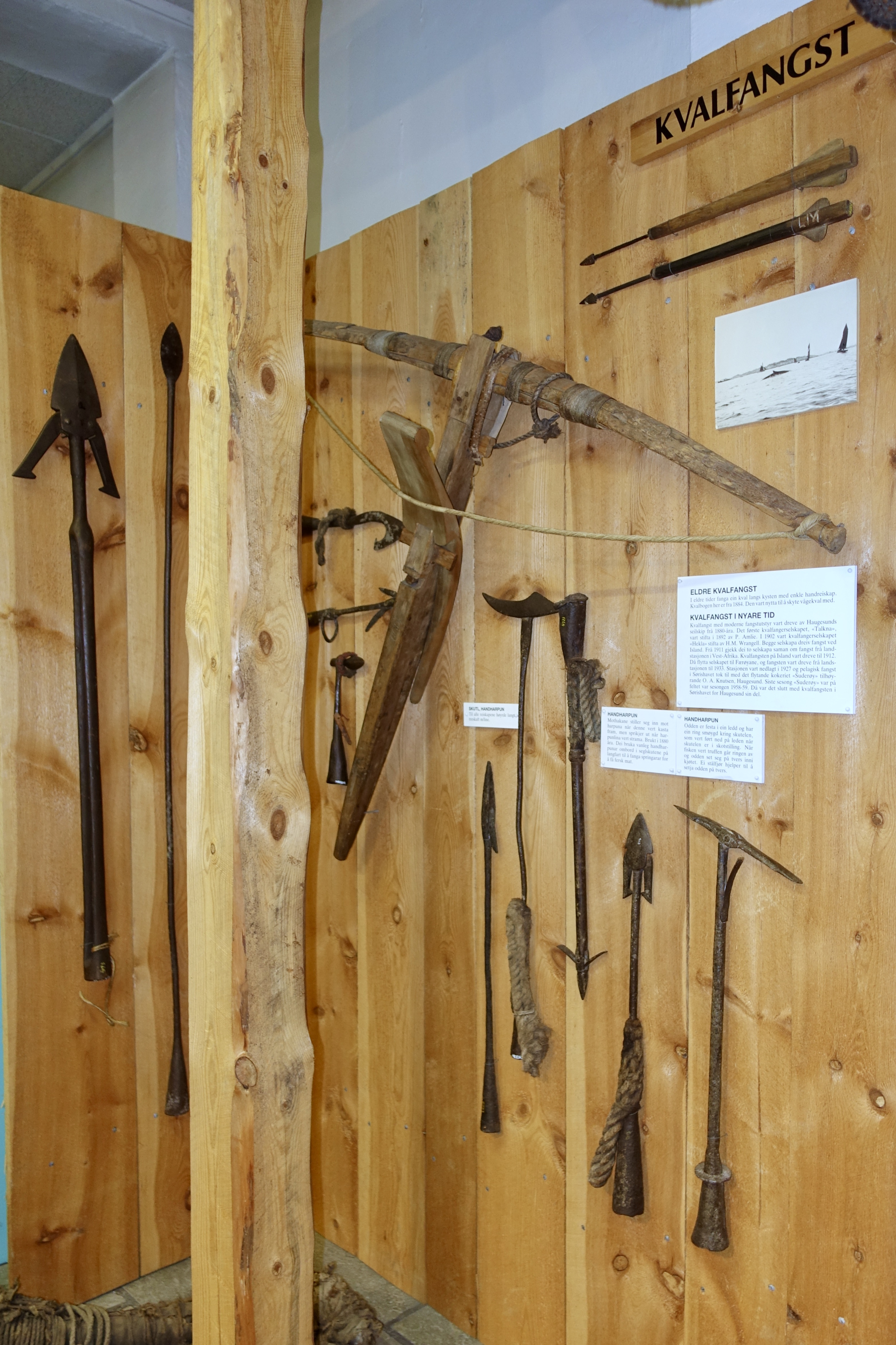 Old whaling equipment, harpoons, crossbow, etc. Photo taken in the exhibitions of Karmsund folkemuseum, a museum in Haugesund focusing on the cultural history of the town of Haugesund and the northern part of Rogaland county in the 19th and 20th century.